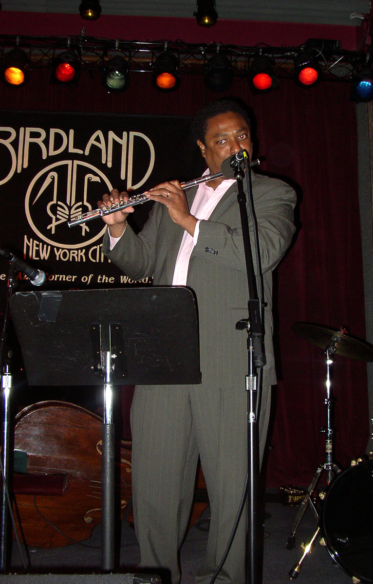 Jazz saxophonist and flutist Vincent Herring at Birdland in New York City.